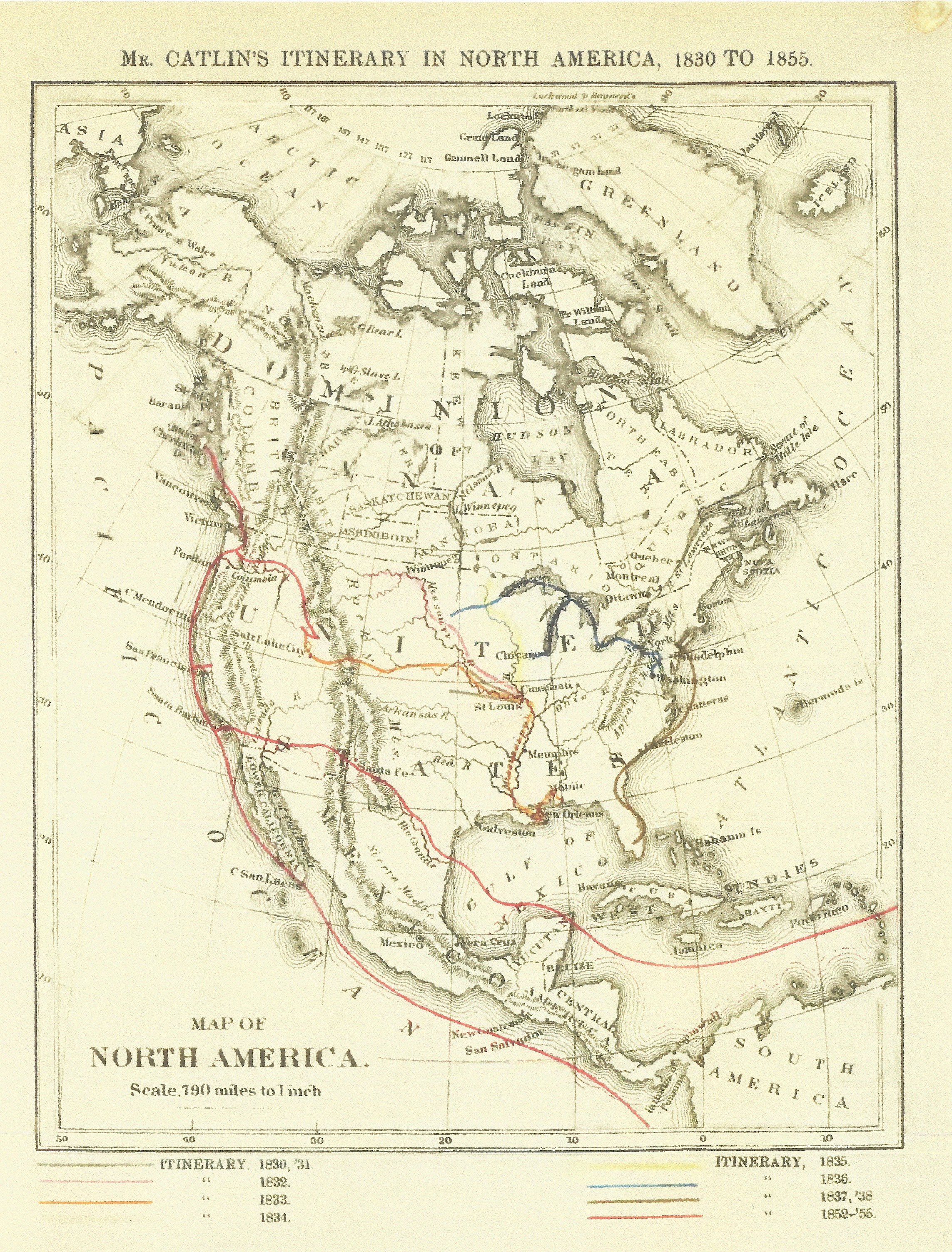 The routes of Indian painter George Catlin during the years 1830-1855